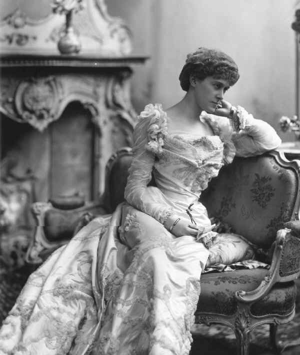 Nina Boucicault 11 February 1899